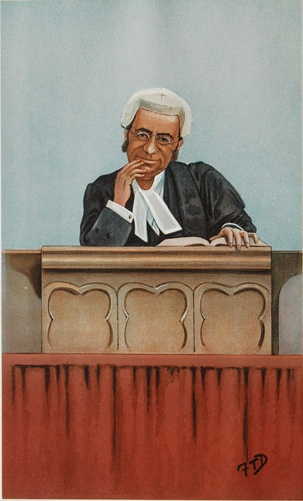 Caricature of Mr Justice George Farwell. Caption read "Powers".